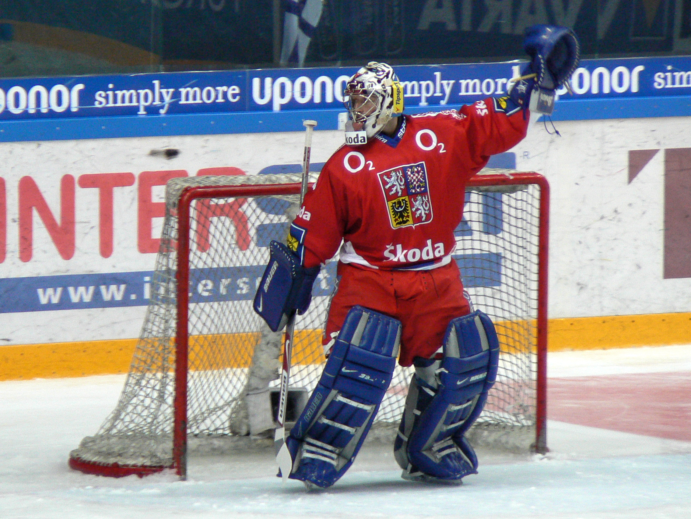 Czech ice hockey goaltender Milan Hnilička signals icing in an LG Hockey Games / Euro Hockey Tour match against Finland in Tampere, Finland, February 2008.